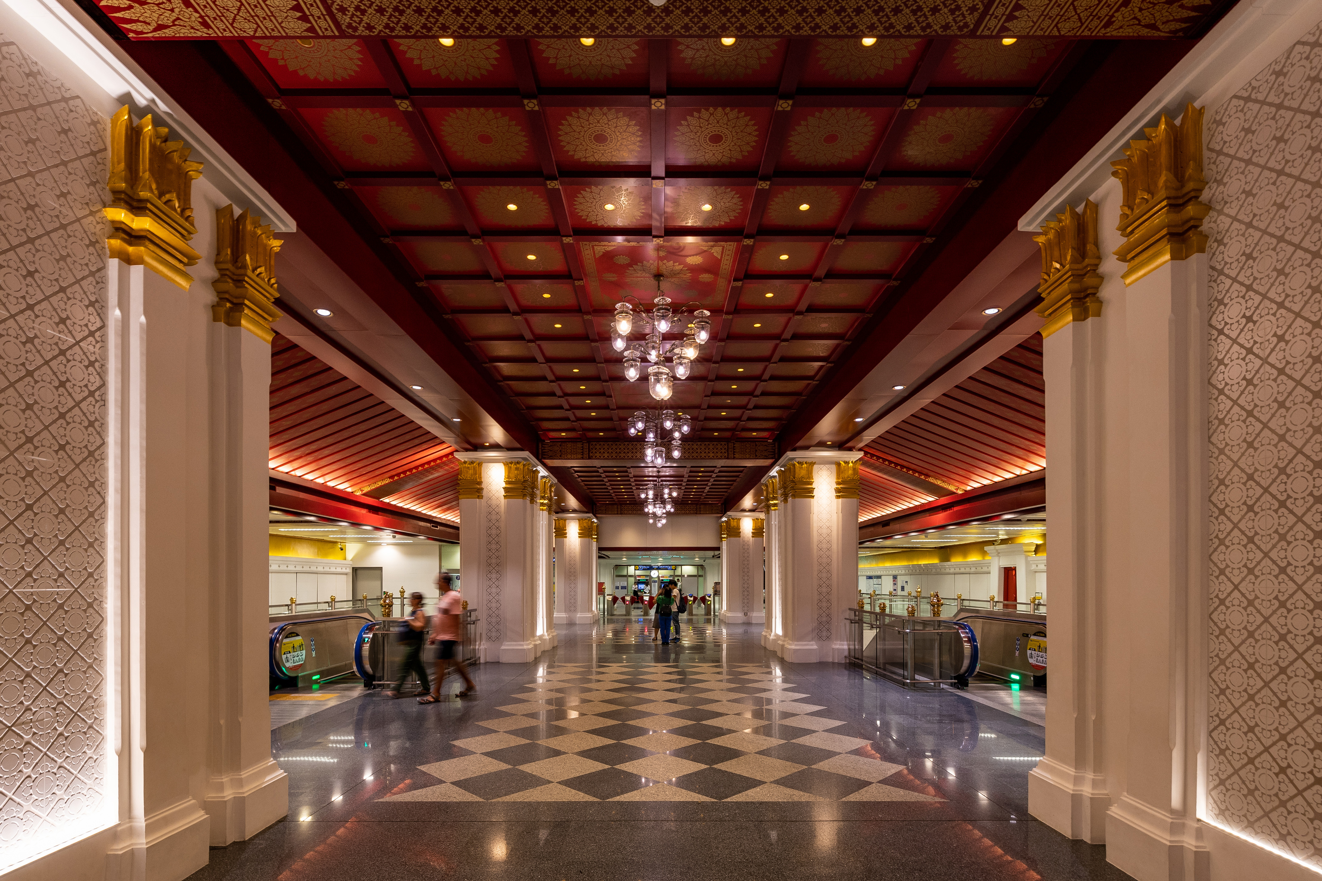 Sanam Chai station (Thai: สถานีสนามไชย) is a Bangkok MRT rapid transit station on the Blue Line, located underground under Sanam Chai Road located in Bangkok, Thailand. During the excavation of the site to build the station, multiple historical artifacts were found, such as coins from the reign of King Mongkut and King Chulalongkorn.